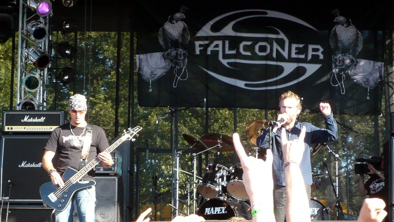 Magnus Linhardt and Mathias Blad of Falconer at the Wacken Open Air in 2007.